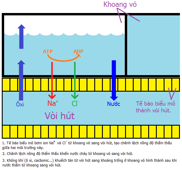 Simplified structure and mechanism of Siphuncle and Cephalopods